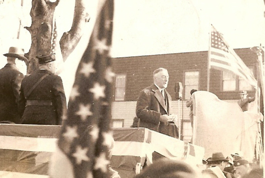 RLM Speaking to the crowd 1943